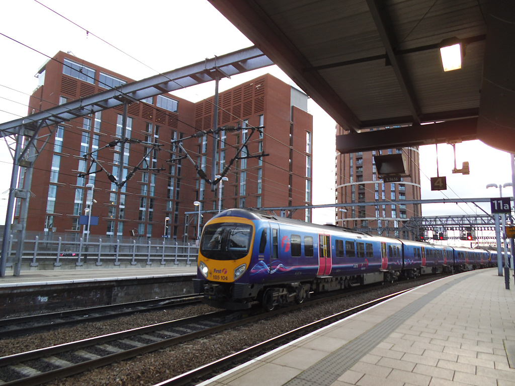 Transpennine train at Leeds